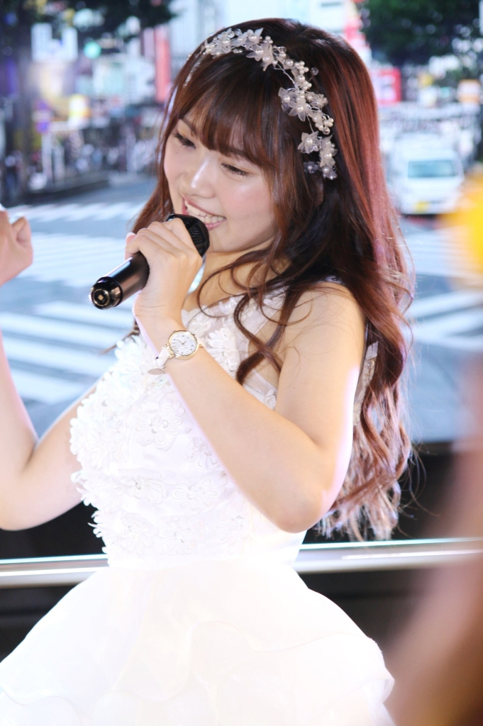 This is an event where you can sing in the swaying car while moving around Shibuya and Harajuku by bus. Speakers were installed outside the bus and attracted the attention of people in the city.